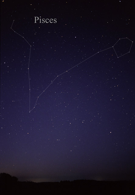 Photography of the constellation Pisces, the fish